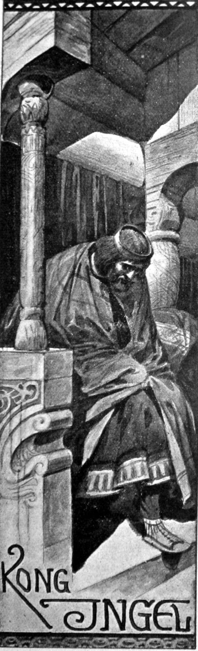 Kong Ingild. The king is described in Gesta Danorum in the following way: "Frode was succeeded by his son Ingild, whose soul was perverted from honour. He forsook the examples of his forefathers, and utterly enthralled himself to the lures of the most wanton profligacy. Thus he had not a shadow of goodness and righteousness, but embraced vices instead of virtue; he cut the sinews of self-control, neglected the duties of his kingly station, and sank into a filthy slave of riot." Elton's translation